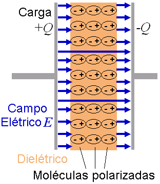 Modified from using Microsoft Paint